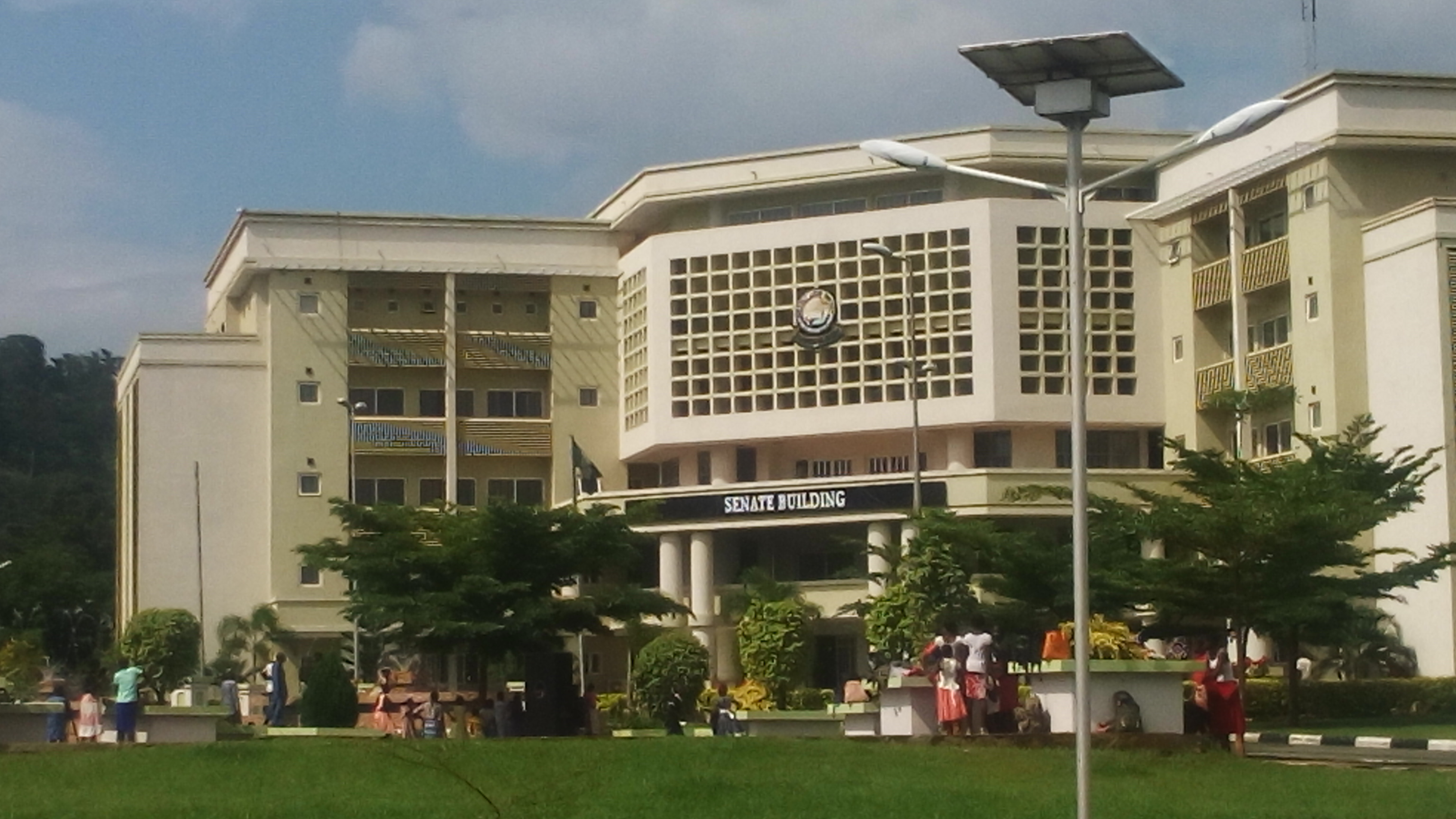 A view of the senate building at Adekunle Ajasin University. Akungba Akoko.